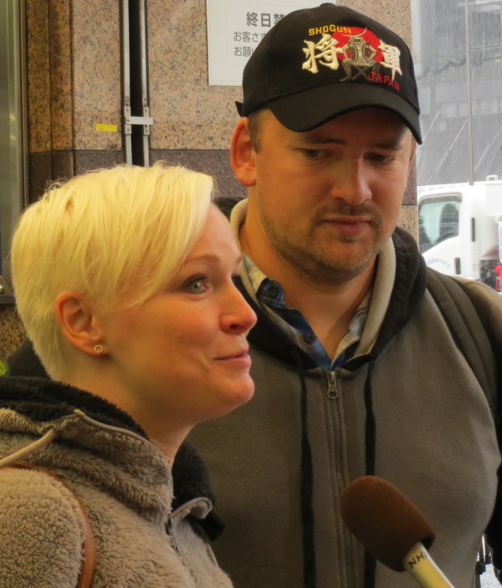 Danish actress Vicki Berlin with husband Nikolaj Tarp in Japan oct 2014